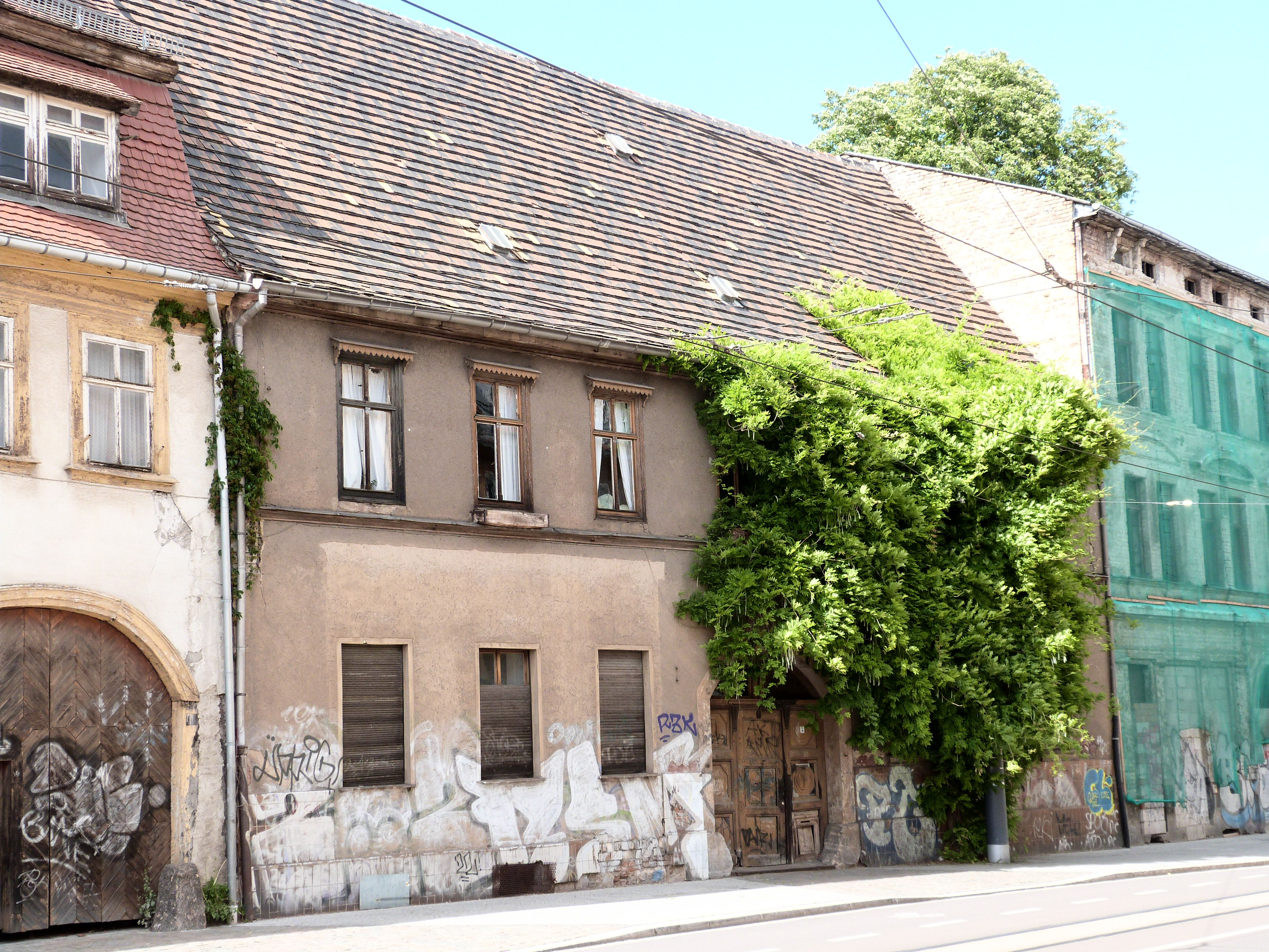 House No. 59, Mansfelder Strasse, Halle (Saale), former inn, built in 1828